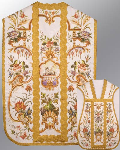 Roman fiddleback chasuble